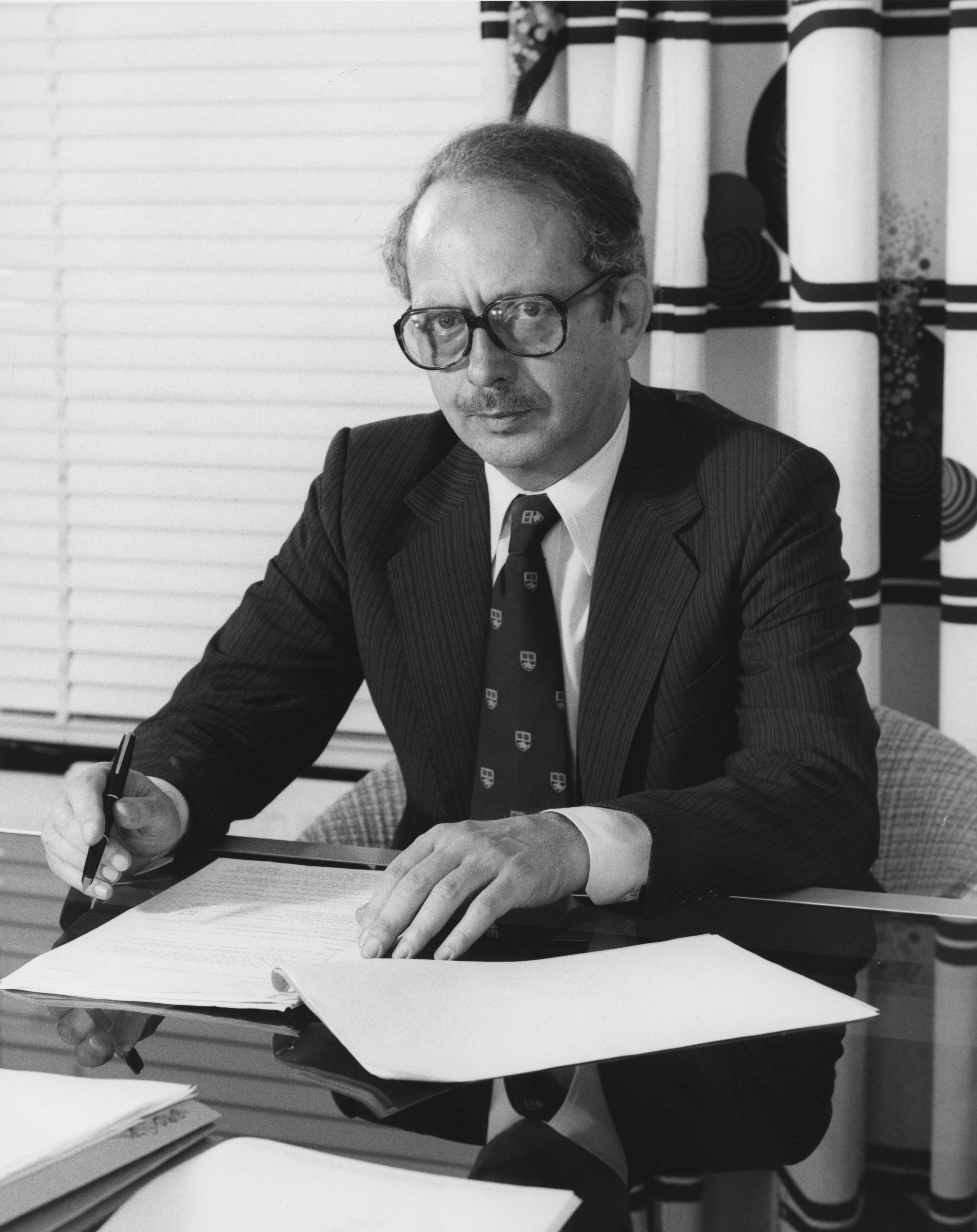 Later Lord Dahrendorf, Director of LSE 1974-84 IMAGELIBRARY/81 Persistent URL